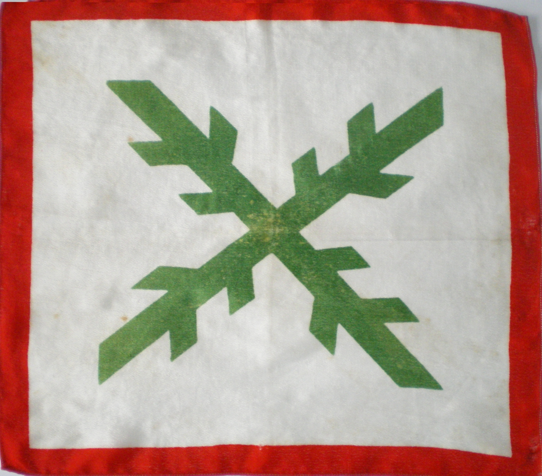 An Euzko Gudarostea or Basque Army's handkerchief. Spanish Civil War. Basque Country.